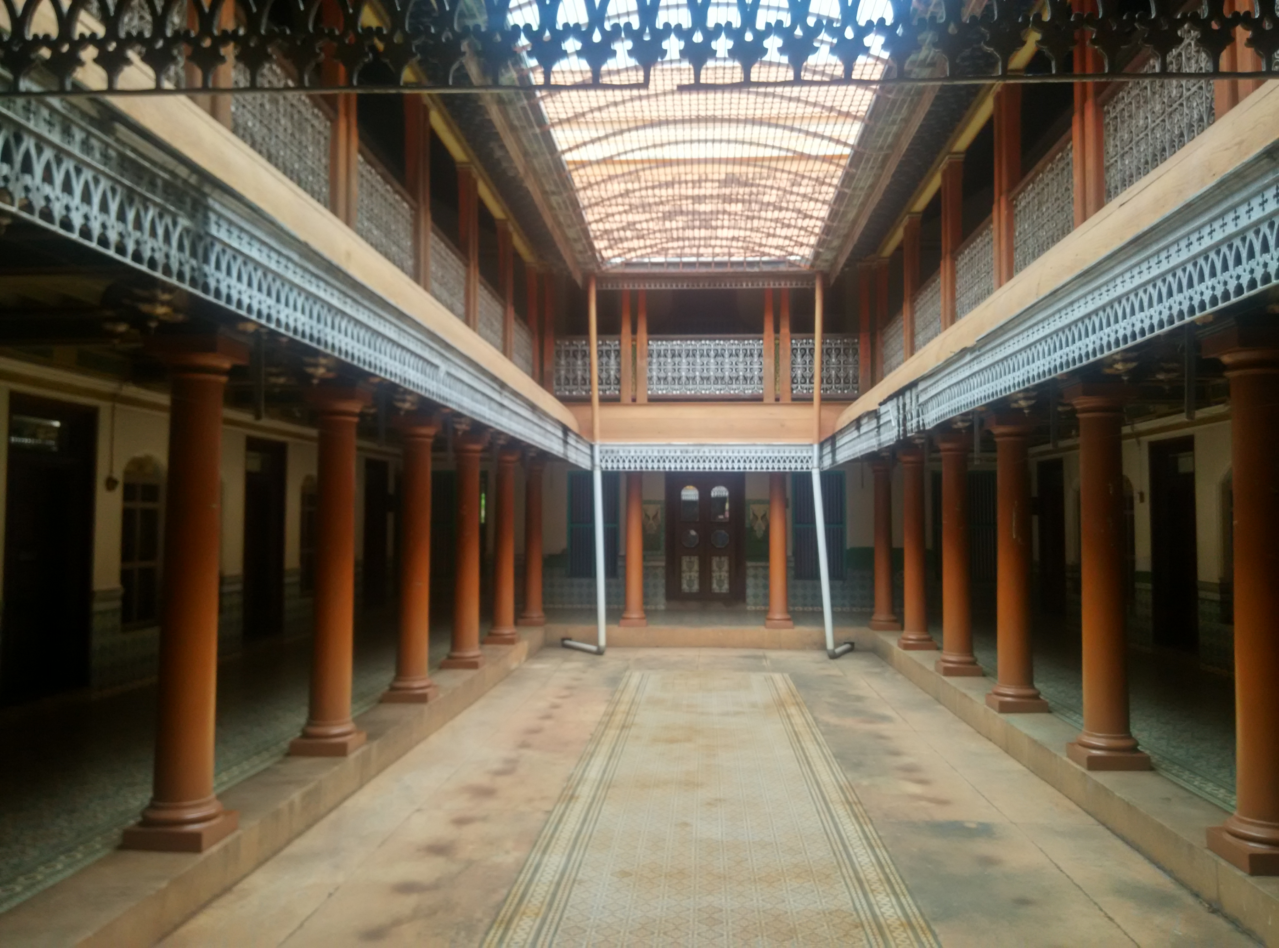 Structure of Mutram (Courtyard) in Karaikudi Chettinad buildings